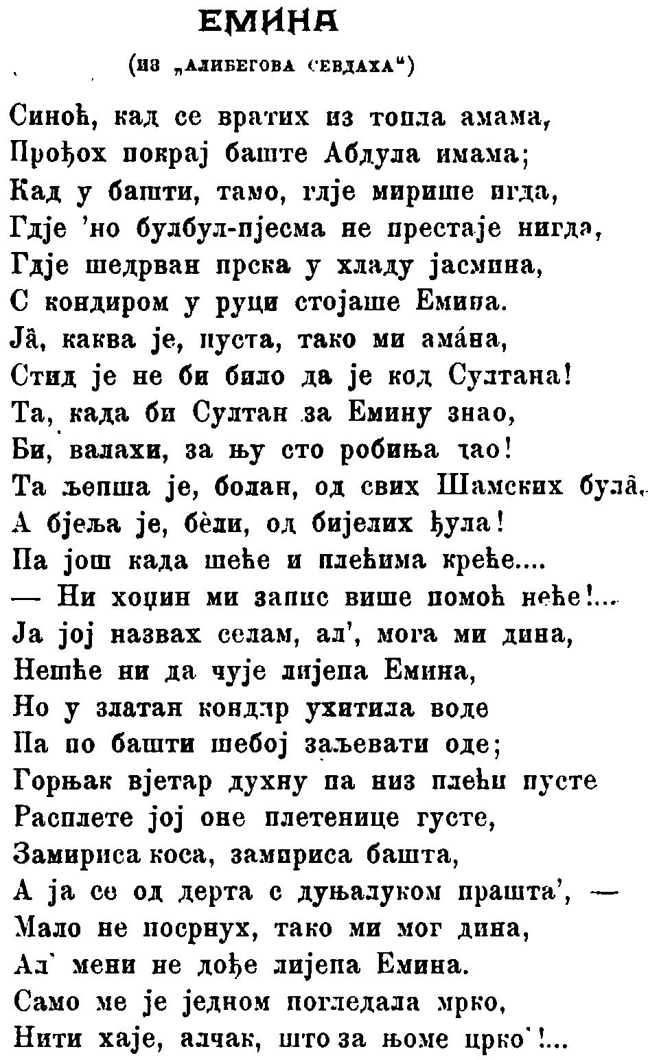 The first publication of Aleksa Šantić's popular poem Emina, in the Serbian literary journal Kolo